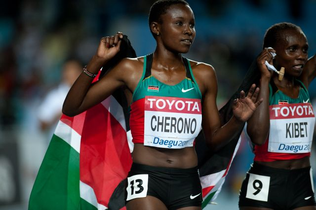 Mercy Cherono and Sylvia Jebiwott Kibet during 2011 World championships Athletics in Daegu